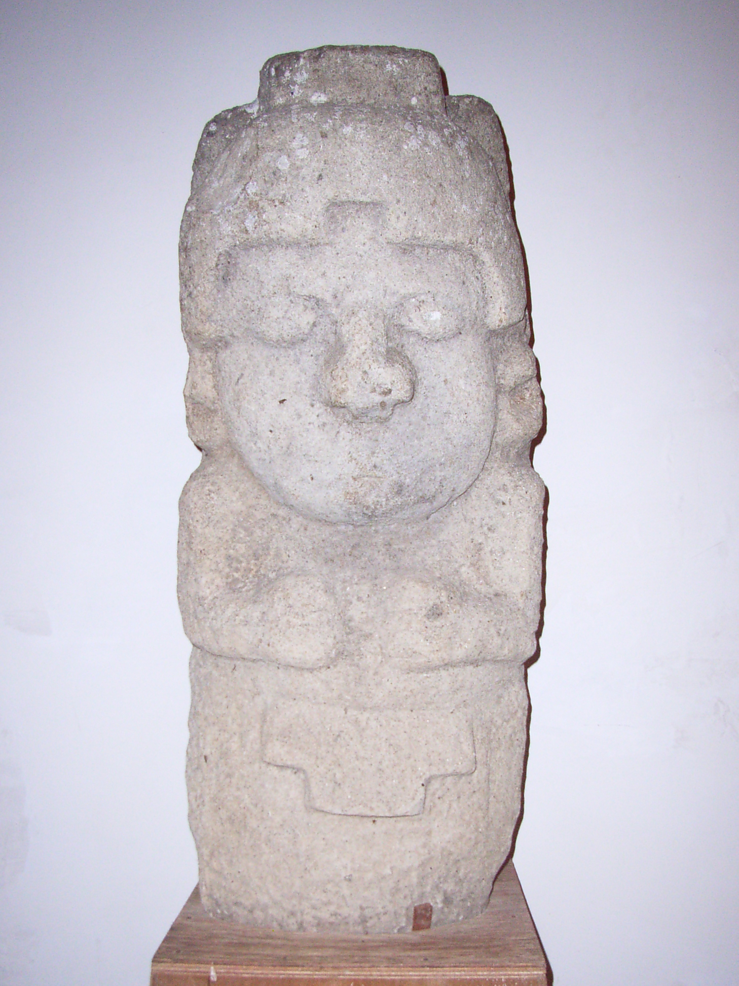 Statues from Tierradentro show features that resemble to those of San Agustín, Huila